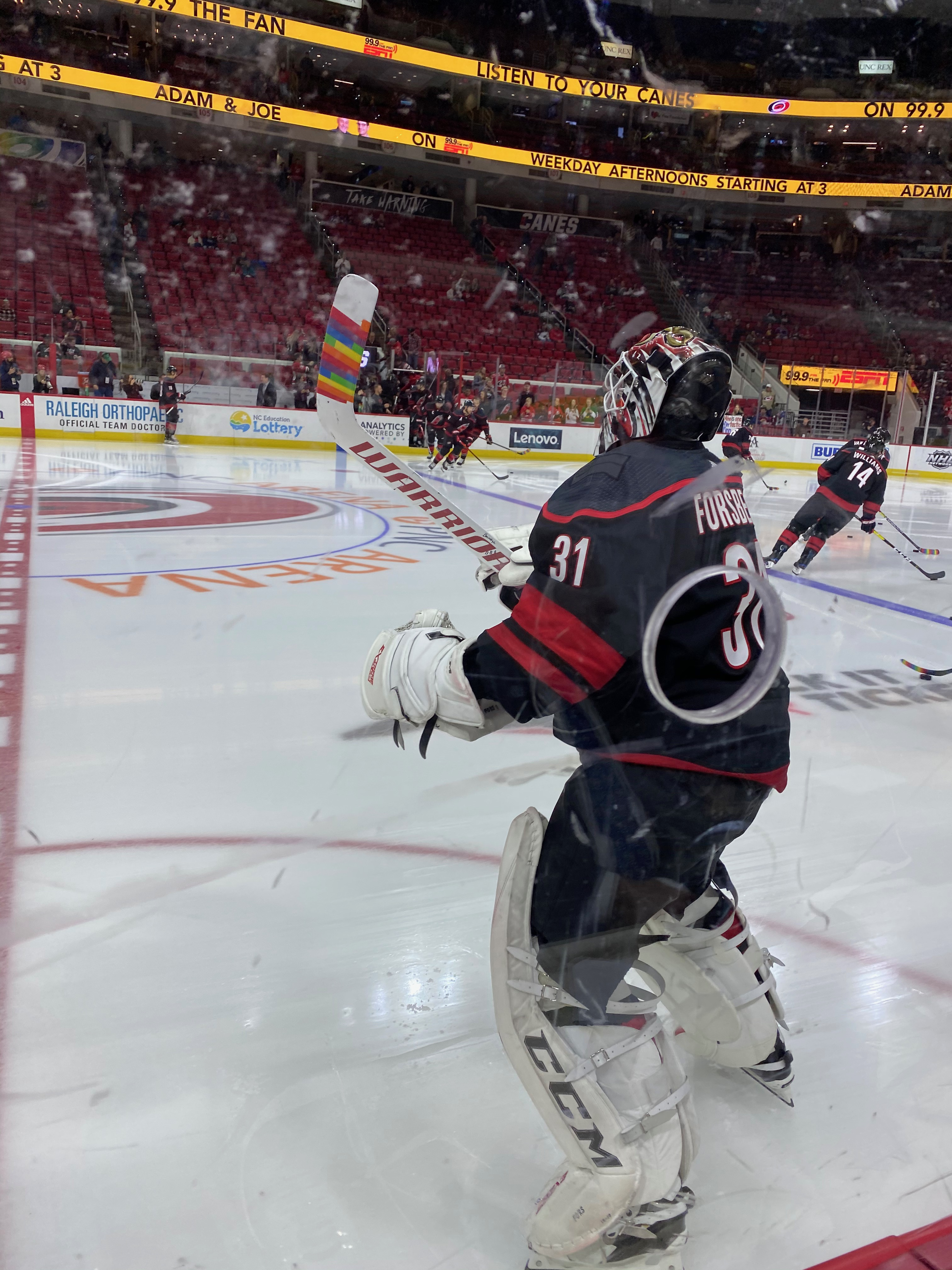 Carolina Hurricanes goaltender Anton Forsberg warming up before the 2020 Pride Night game, with his stick wrapped in Pride Tape